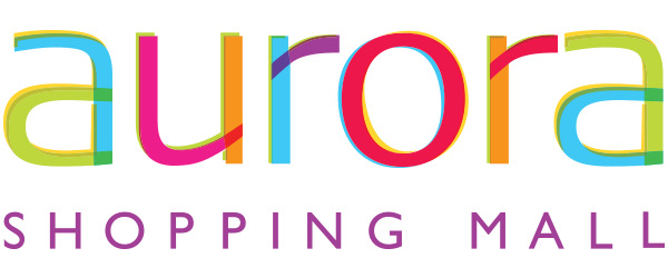 aurooooor